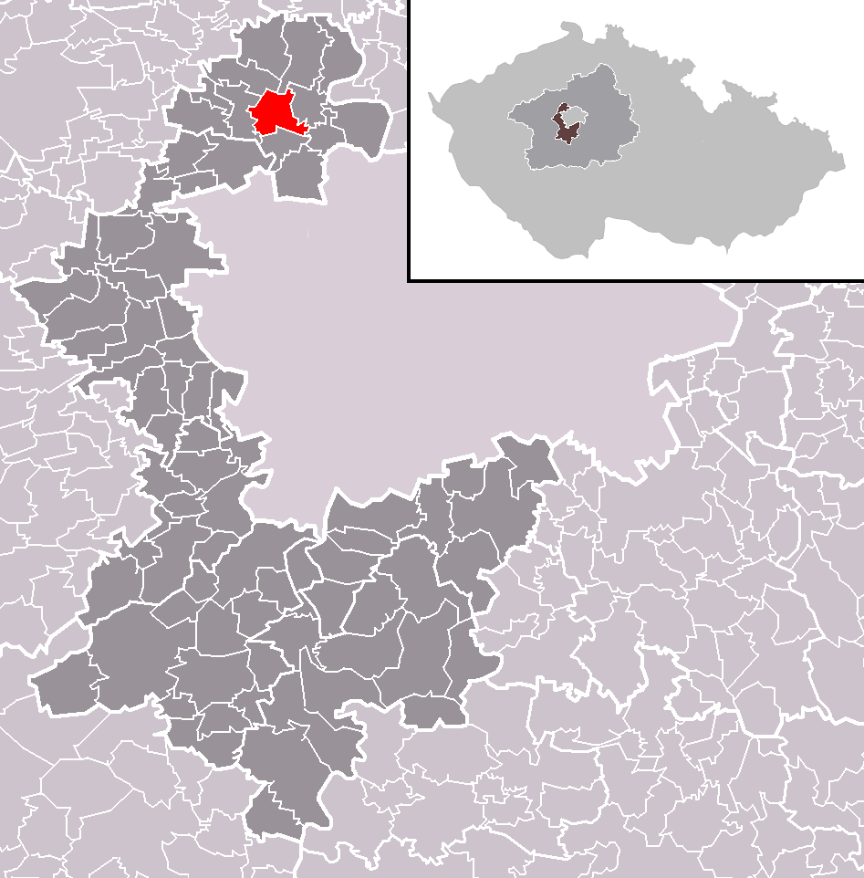 Location of Velké Přílepy municipality within Prague-West District and administrative area of Černošice as a Municipality with Extended Competence.